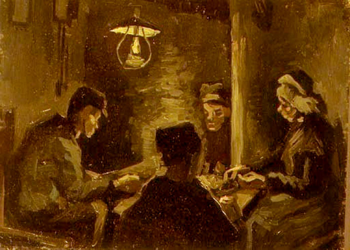 Van Gogh: The Potato Eaters, April 1885, Study